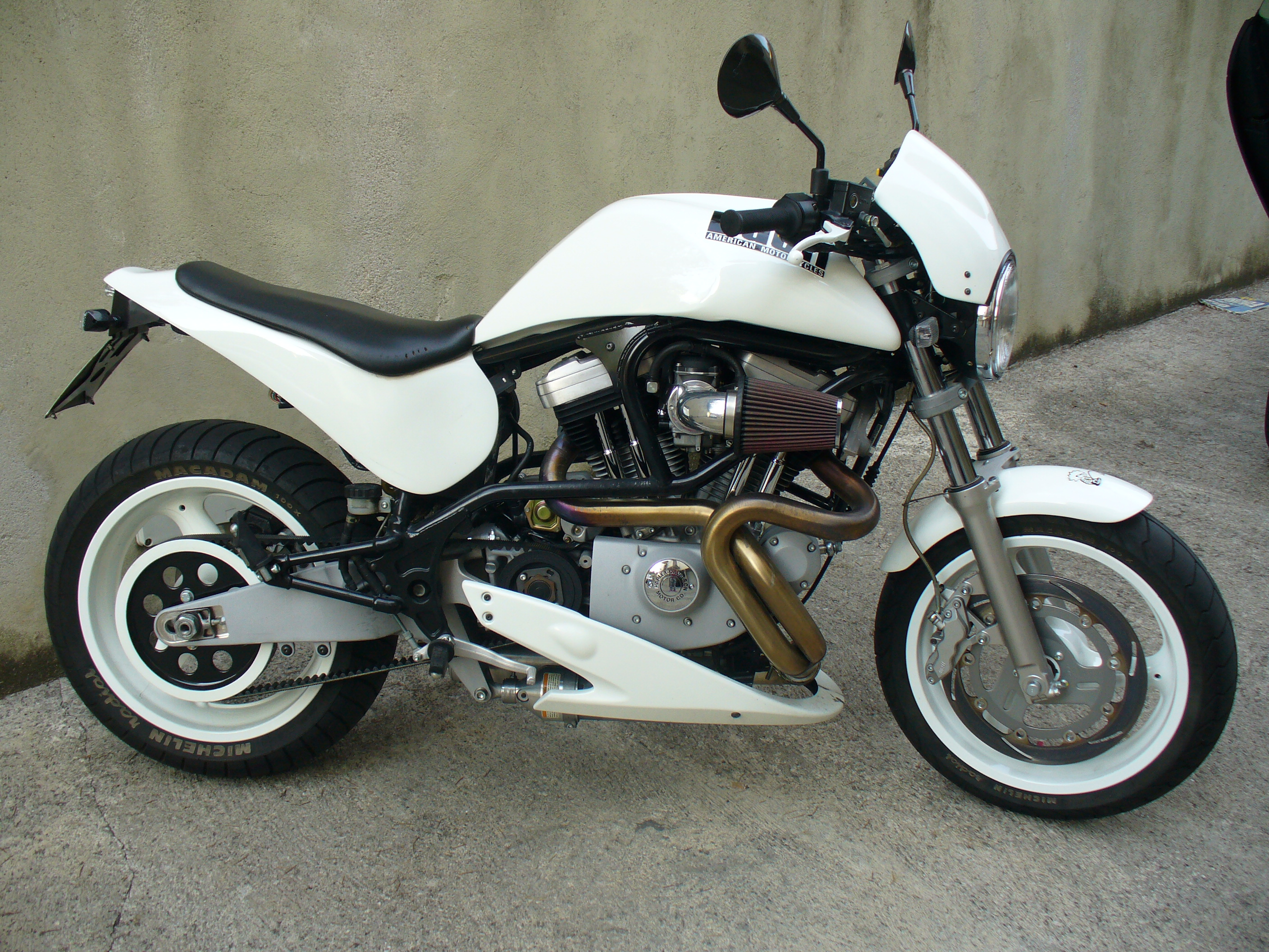 A 2000 white Buell M2 Cyclone. Side view.